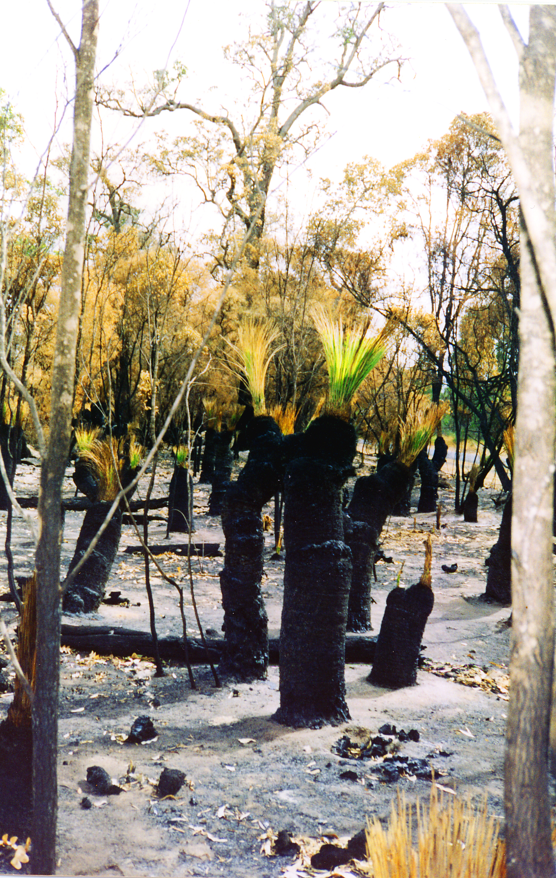 Australian bush after fire, Western Australia, 1996